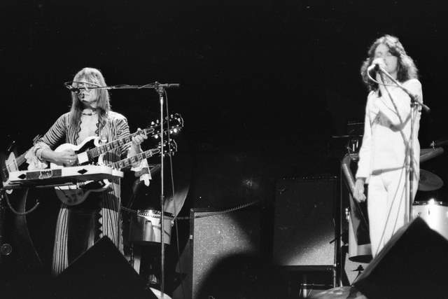 Steve Howe on guitar and Jon Anderson.